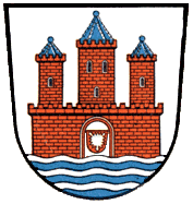 Coat of arms of Rendsburg Blasonierung: In Silber über abwechselnd silbernen und blauen Wellen eine rote, freistehende Ziegelburg mit Zinnenmauer, drei mit blauen Spitzdächern versehenen Zinnentürmen, davon der mittlere etwas höher und breiter, und mit offenem Tor, darin das holsteinische Wappen (in Rot das silberne Nesselblatt).